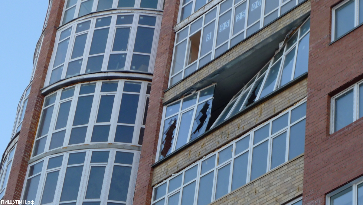 Broken windows at a new block of flats in the Enthusiasts Street